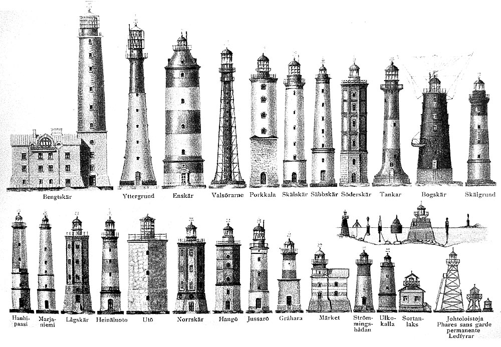 Lighthouses in Finland, 1909